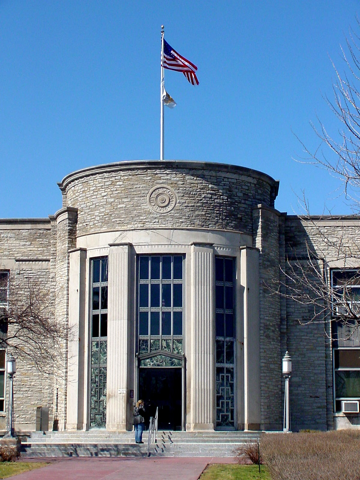 Photo provided by Saginaw Future.